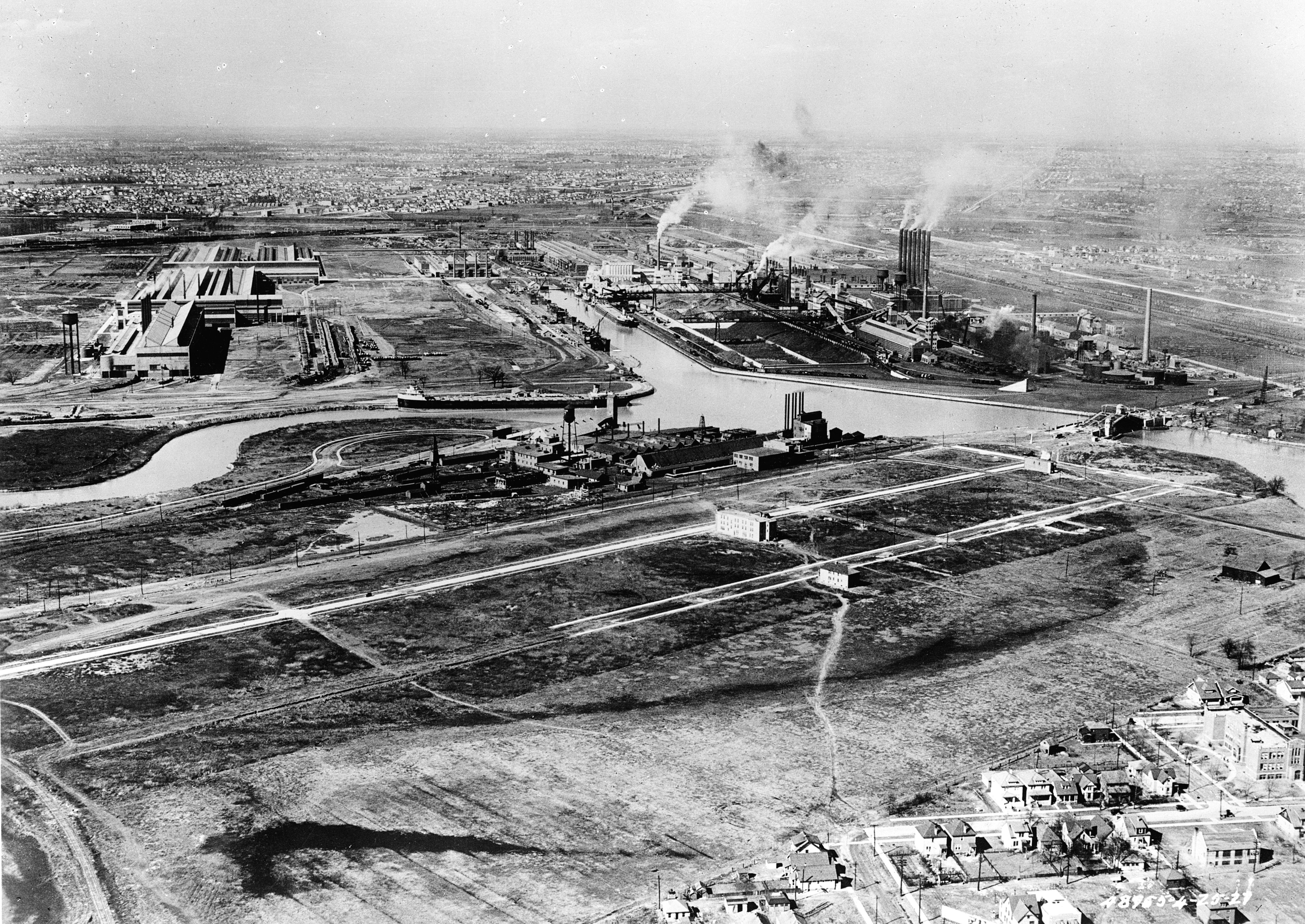 Aerial view of the Ford River Rouge plant (circa 1927). Located on the River Rouge in Dearborn, Metro-Detroit, Michigan.